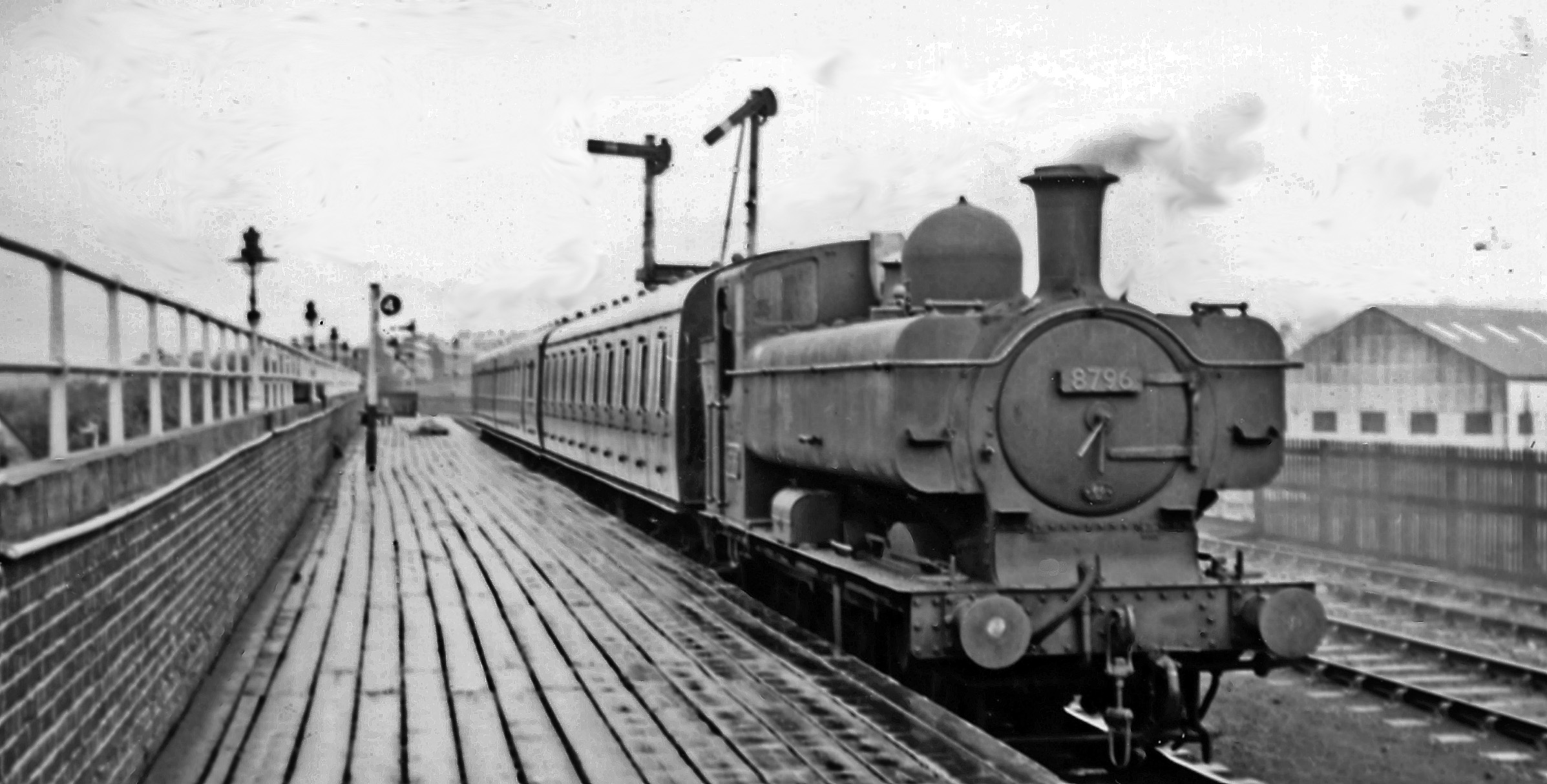 Brynmawr station, with local train from Newport. View westward, towards Merthyr on the ex-LNW Abergavenny - Merthyr line (closed 1/58), from which branched left (southward) the line to Newport (ex-GW & LNW Joint as far as Nantyglo, then GWR). Brynmawr station was closed on 30/4/62 when the Newport service ceased. See also SO1911 : Site of Brynmawr Station. The locomotive is '8750' class 0-6-0PT No. 8796 (built 3/34, withdrawn 4/61).